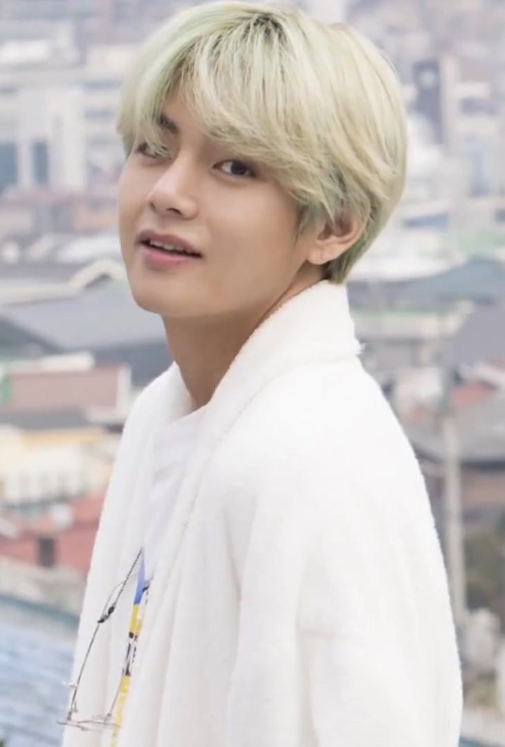 V for Dispatch White Day Special, 27 February 2019